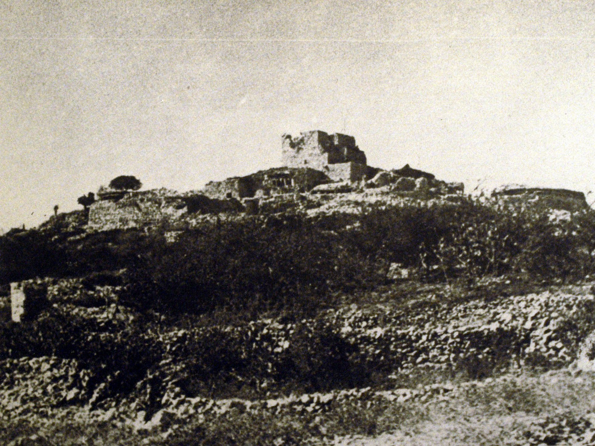 Kastel Hill, some six miles west of Jerusalem, whose capture by the Israelis was a crucial turning-point in the battle for the city. 1948.